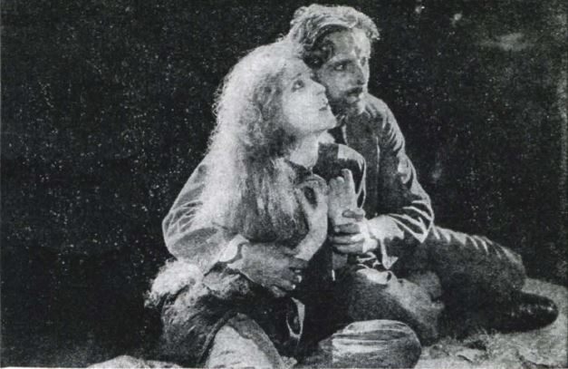 Scene from Idols of Clay (1920) with Mae Murray and David Powell published in the January 1921 issue of Photoplay magazine on page 99.